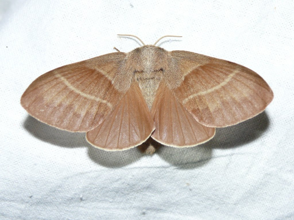 Macrothylacia rubi, weibchen (female)